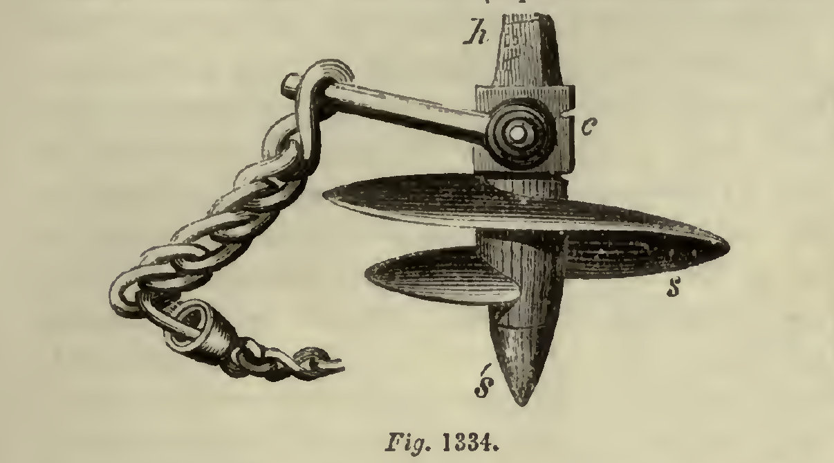 Drawing of screw-mooring device designed by Alexander Mitchell used for the building of screw-pile lighthouses